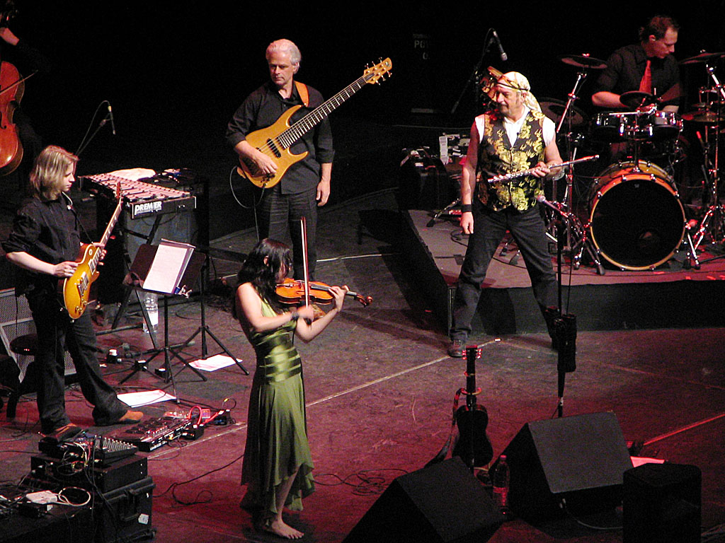 This was the 29. 04. 2006. concert of Ian Anderson & Symphonics, held at the Budapest Congress & World Trade Center. These also were my last shots with my Canon PowerShot S1, but I always can go back to my 3000+ archive ;) The reason I'm not gonna use that camera anymore is that I finally bought a 350D (last friday)!!! So hello everyone, you gonna see the first few pictures in a day or two.